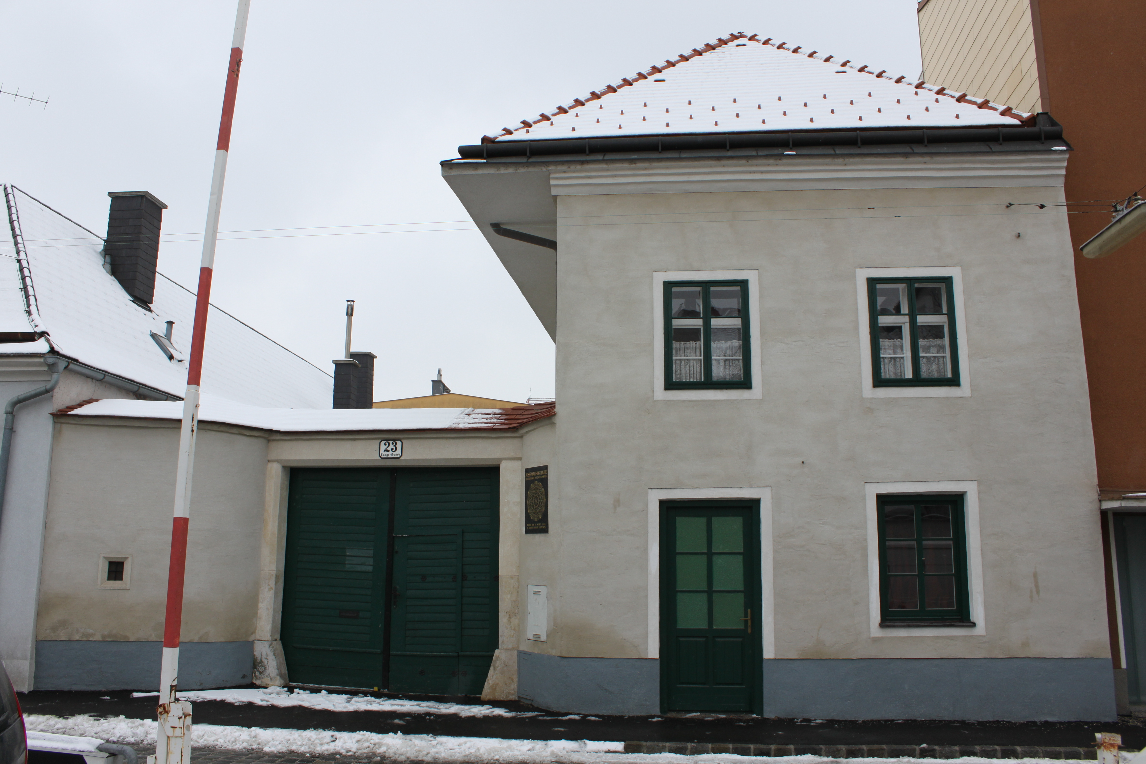 Josef Matthias Hauer's birthplace, Lange Gasse 23, Wiener Neustadt, Lower Austria